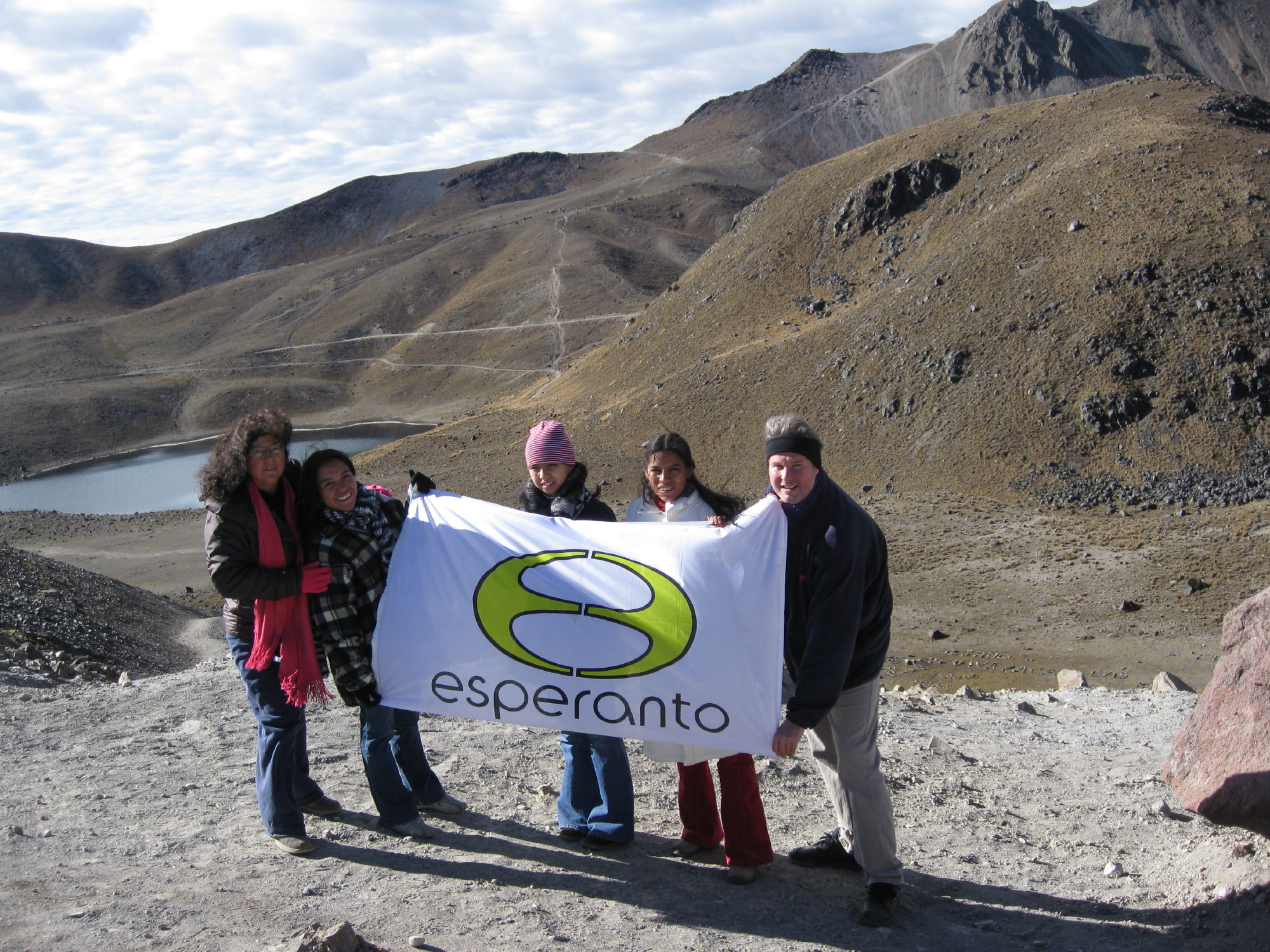 Esperanto-group on nevado de Toluca